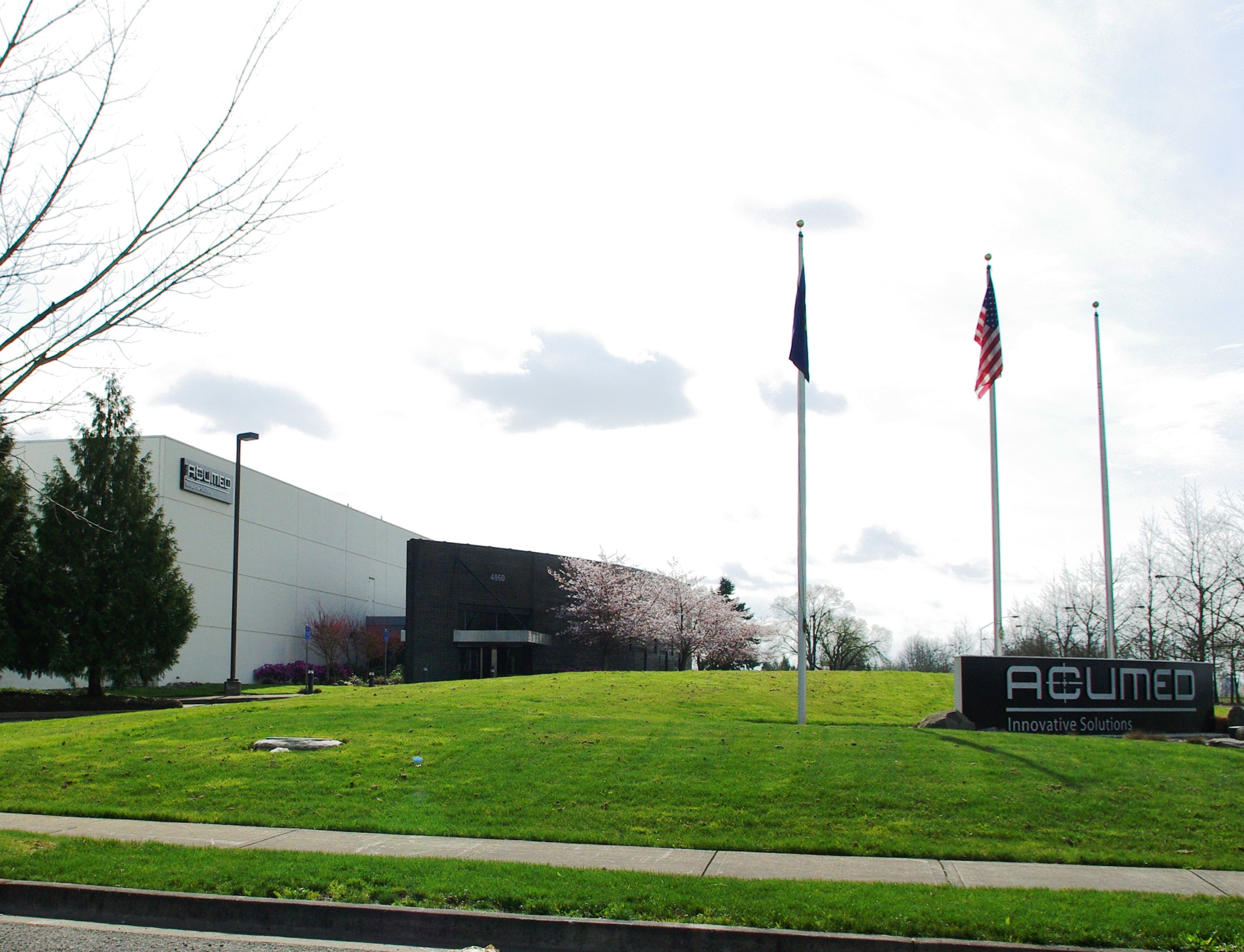 Acumed building on Brookwood at Huffman in Hillsboro, Oregon.